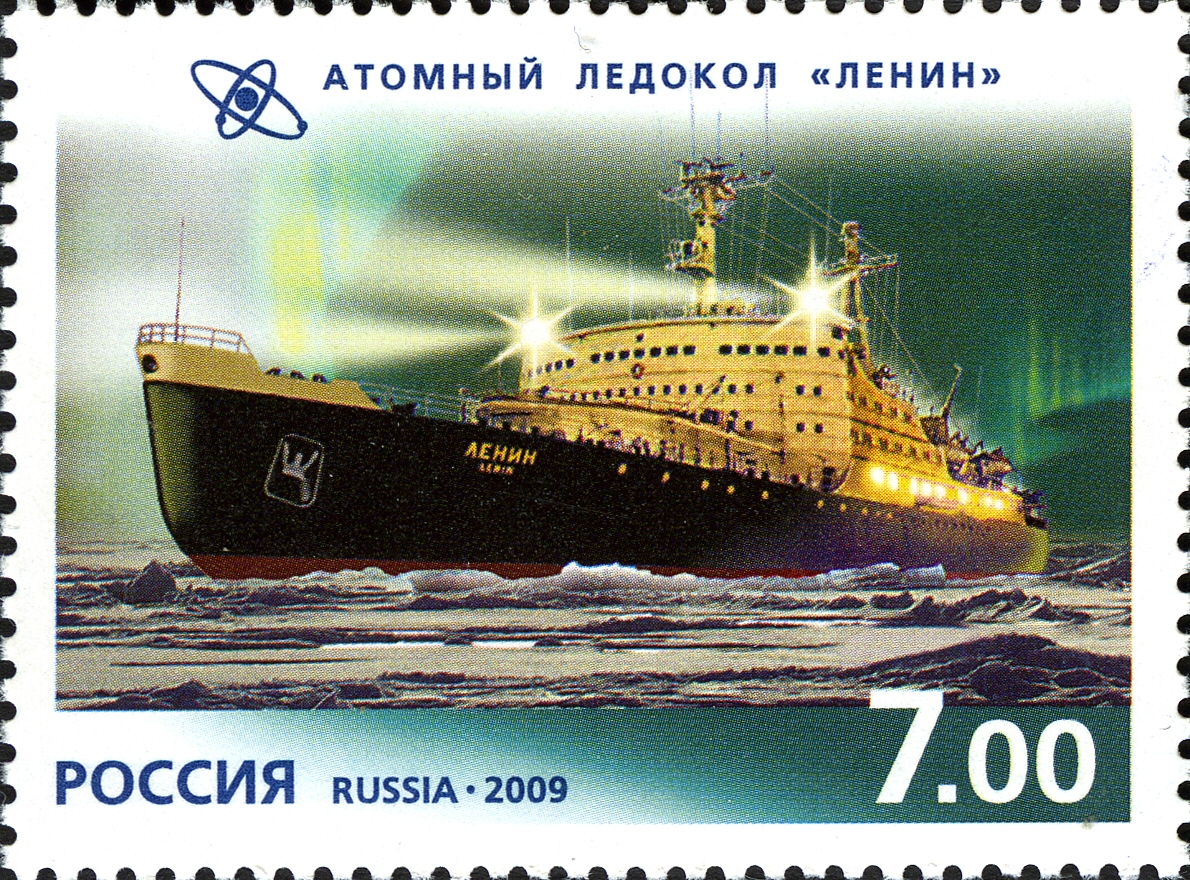 50th Anniversary of Nuclear Russian Navy - "Lenin" atomic ice breaker